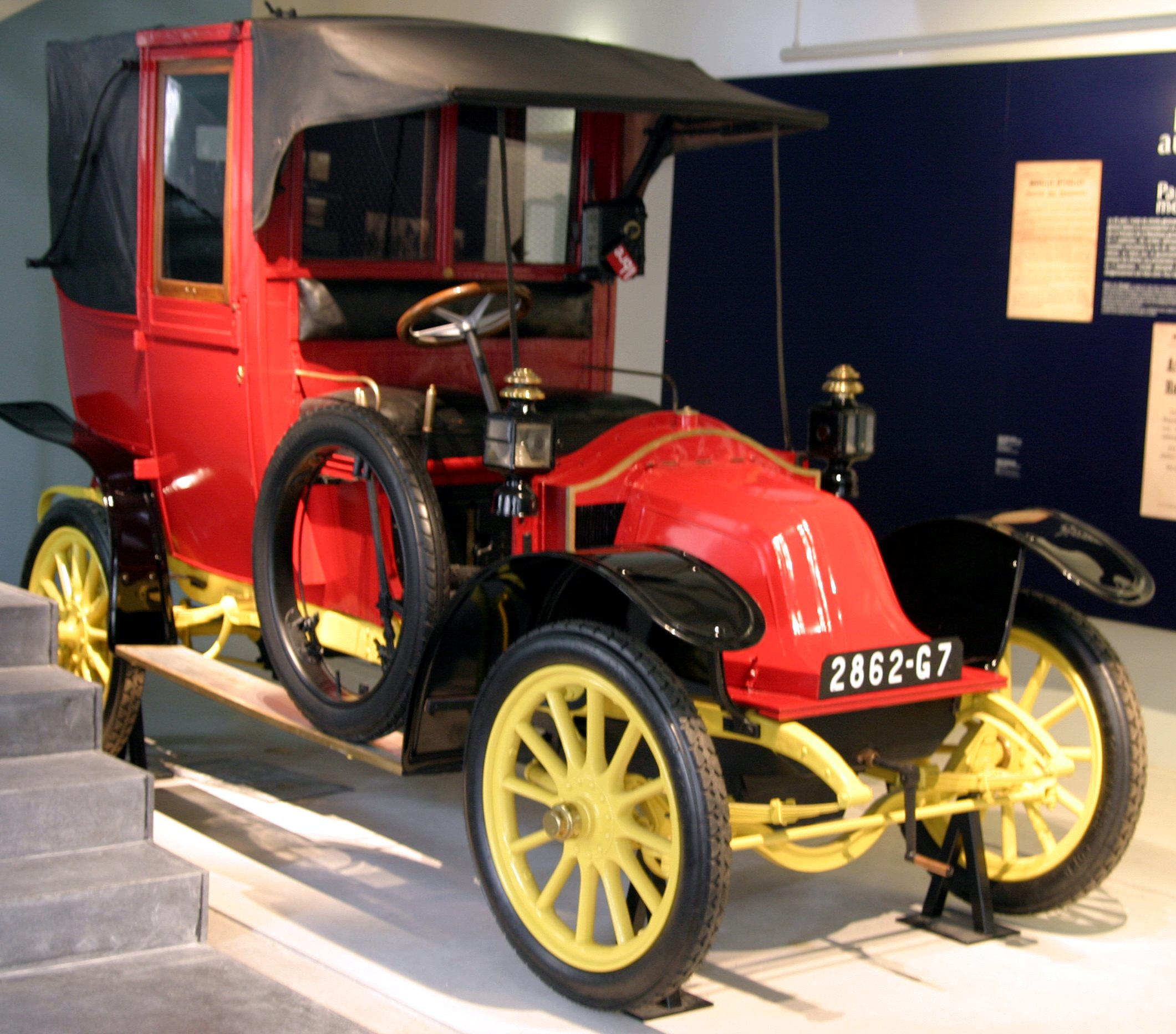 This image was taken at the Musée de l'Armée, Paris. It is one of the famous "Marne Taxis" used to transport French troops to the Battle of the Marne in September 1914.